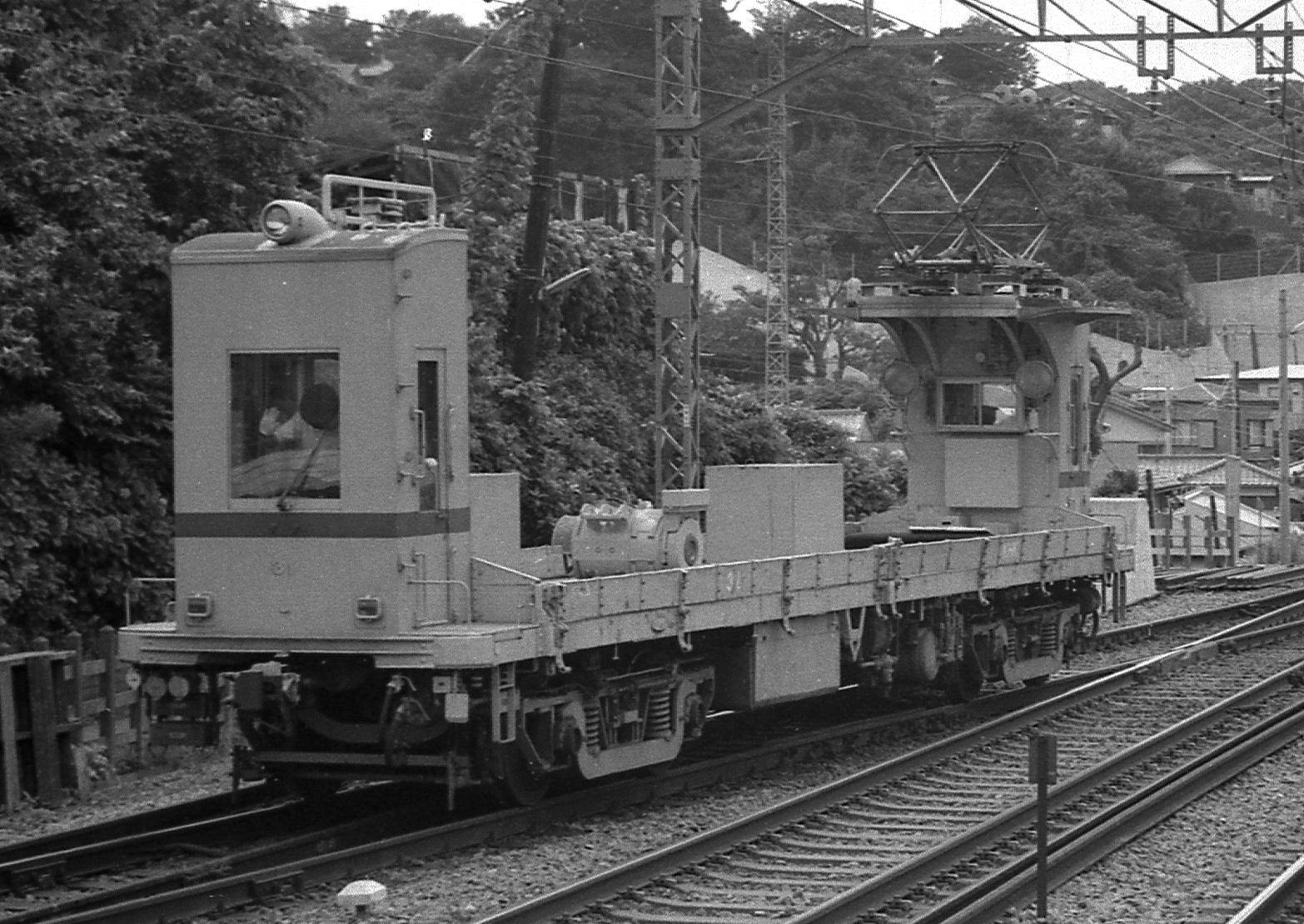 Keikyu Deto 31 at Horinouchi Station